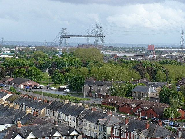 A view across Newport from the Royal Gwent Hospital [3] Looking across the Pillgwenlly area of Newport towards the Transporter Bridge 666383.